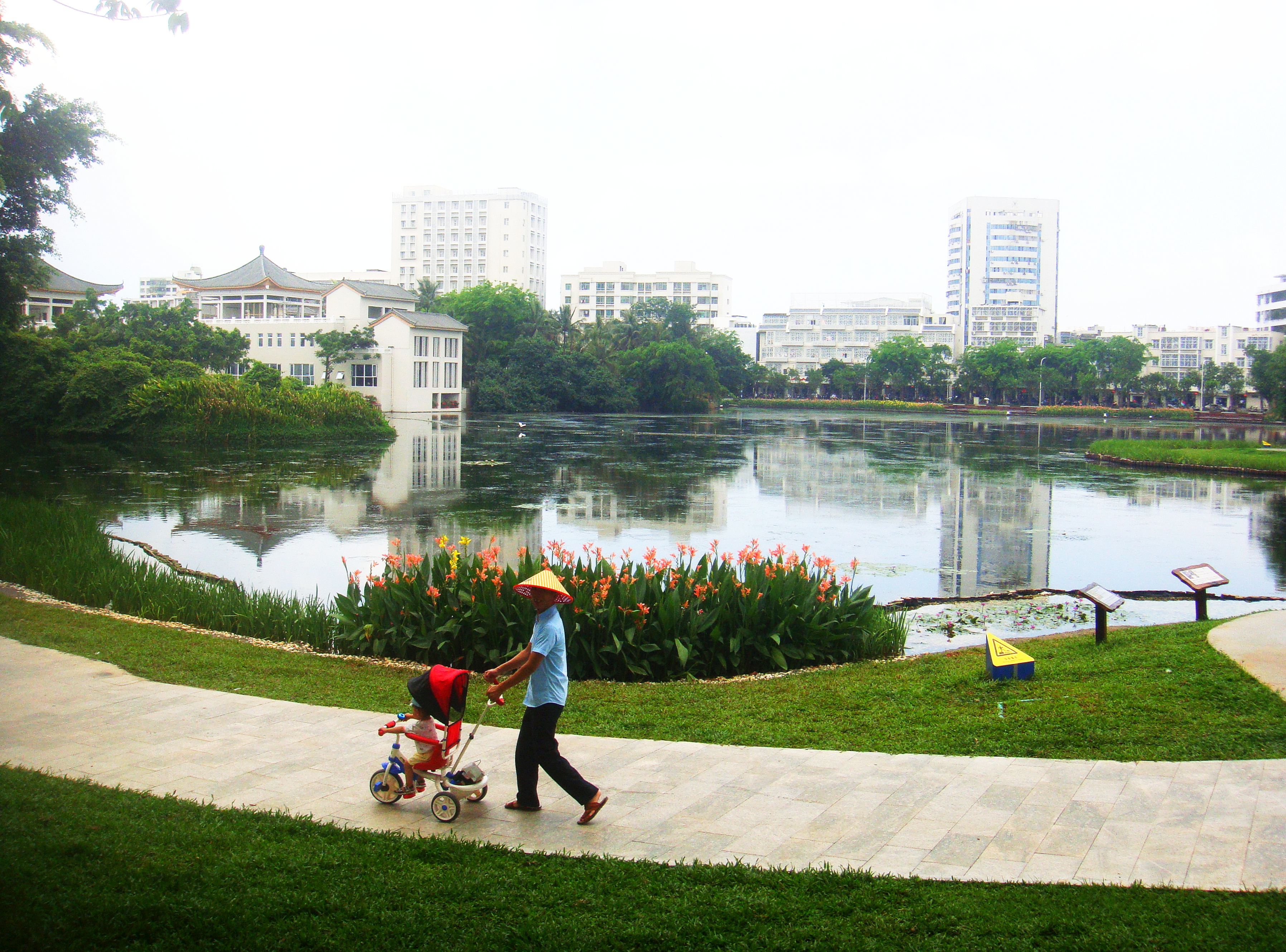 East Lake on May 4, 2018, Haikou, Hainan, China. This photo was taken from the southeast corner looking north. On the left is the building on the peninsula. The water body is the eastern most of the two lakes. The foreground shows the newly renovated grounds.